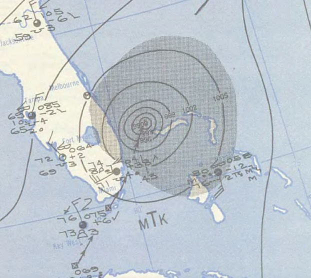 Surface weather analysis of the 1948 Miami hurricane as a Category 2 hurricane northeast of Miami on October 6, 1948.